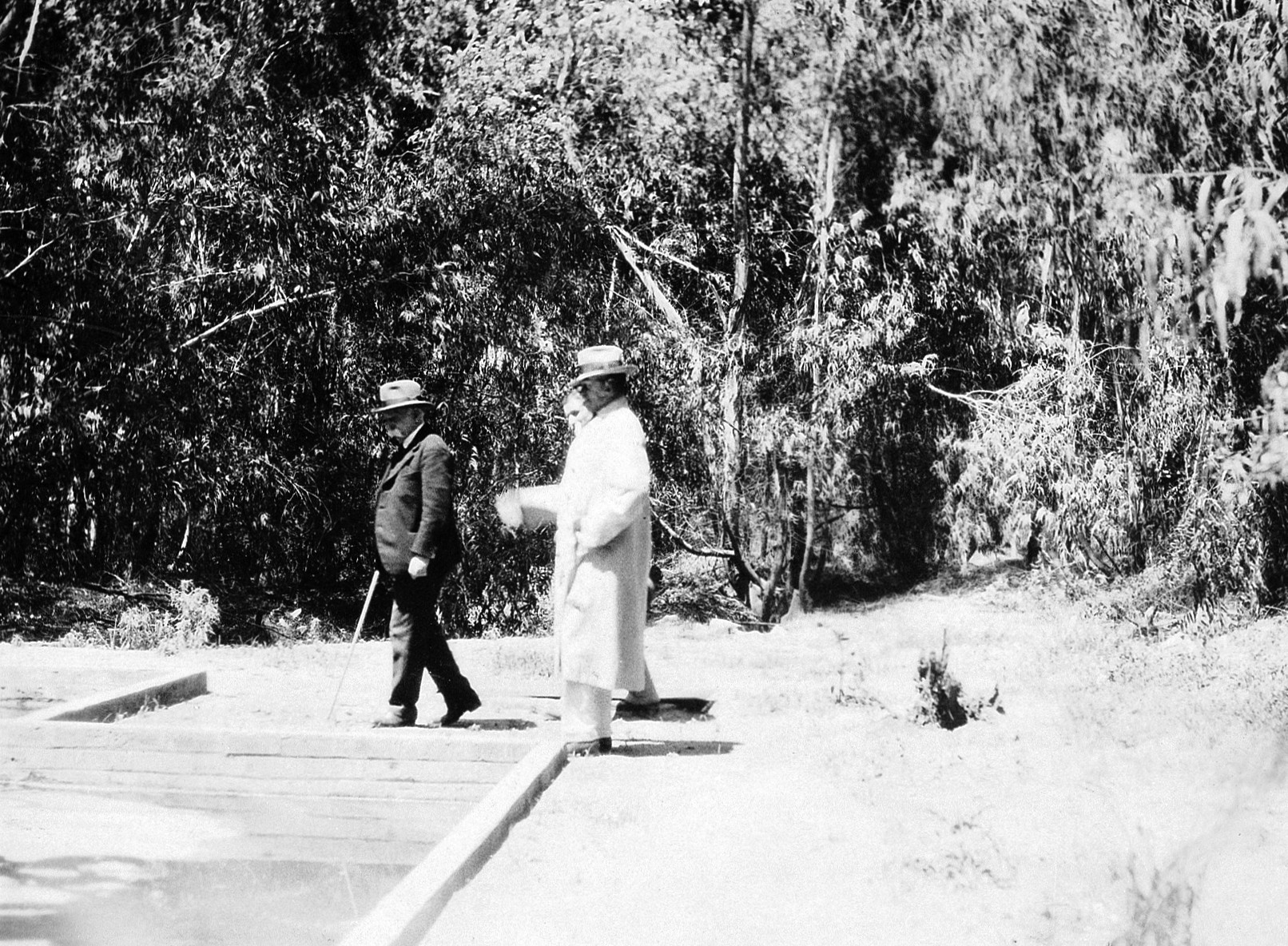 Sir William John Ritchie Simpson, Northen Rhodesia Archives & Manuscripts Keywords: William John Ritchie Simpson